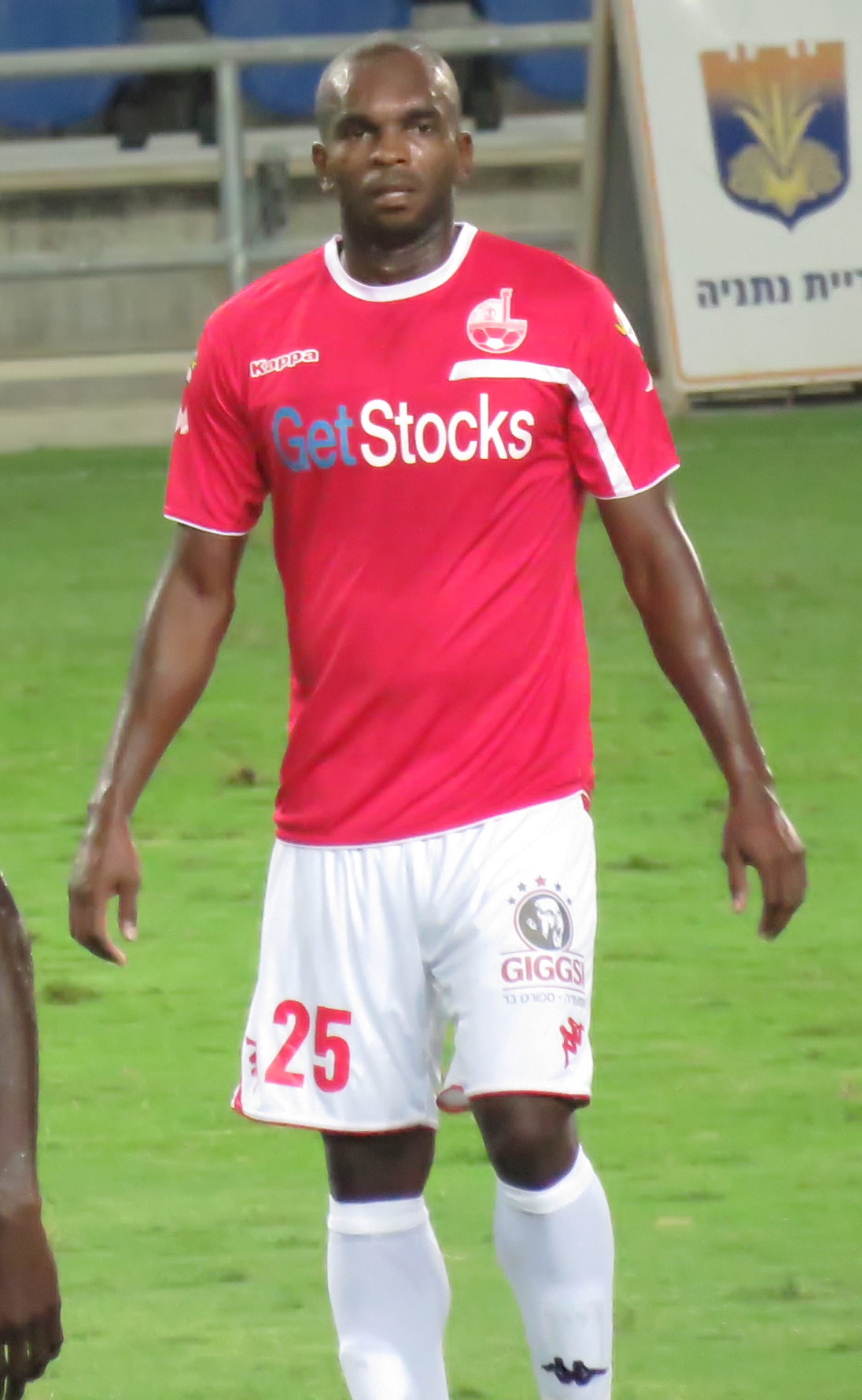 Hapoel Ra'anana vs. Hapoel Be'er Sheva - September 12, 2015